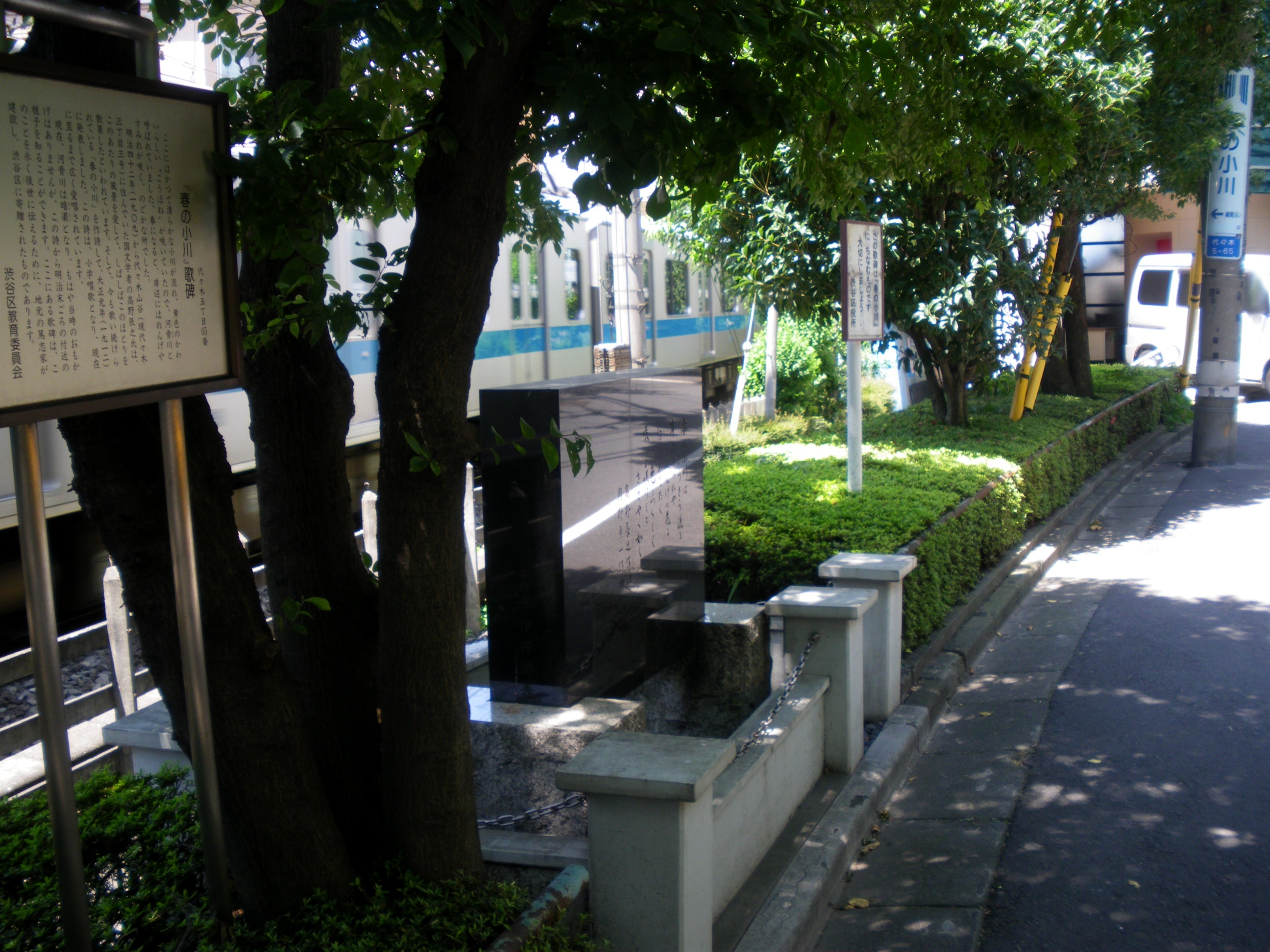 the monument of Haru no Ogawa(Yoyogi,Shibuya,Tokyo)